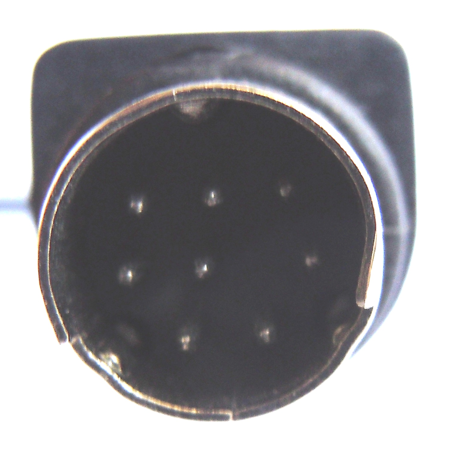 a male mini-DIN connector with 8 pin standard for S-Video.